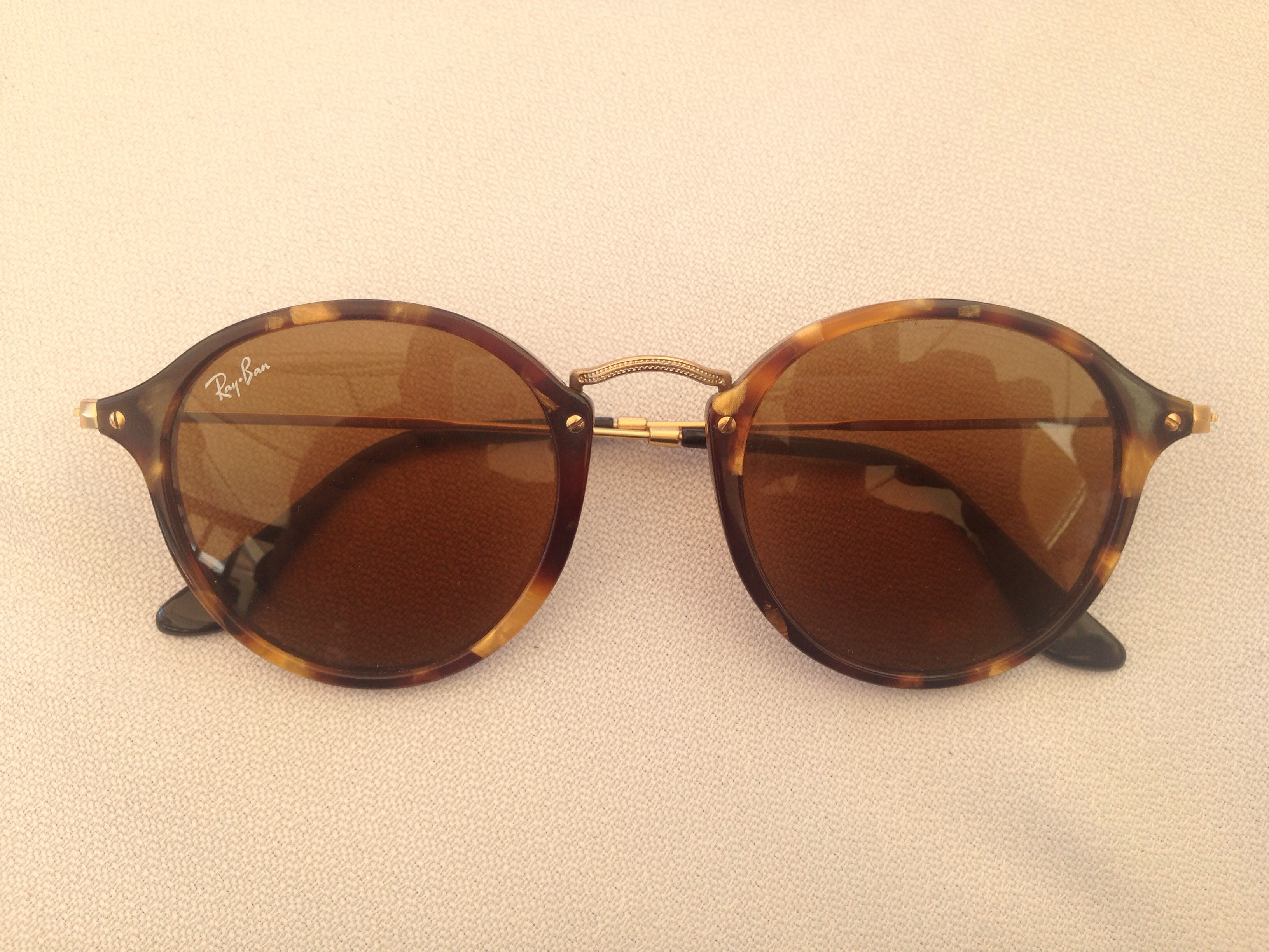 A pair of Ray-Ban round icon sunglasses.